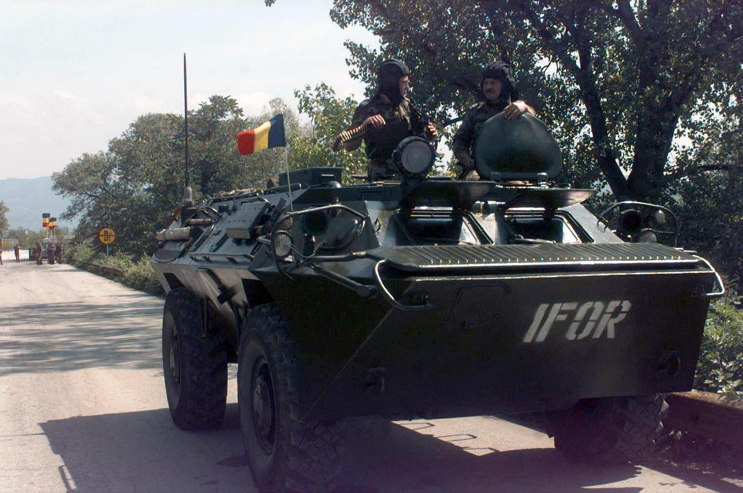 Near the city of Doboj, Bosnia is the Doboj North Bridge that has been rebuilt by the Romanian Engineer detachment stationed there as part of Operation JOINT ENDEAVOR. It is Guarded by a Romanian TABC-79 Armored Personnel Carrier before the offical opening ceremony. It will allow easier vehicular traffic access throughout the surrounding area. Beginning in December, 1995, US and allied nations deployed peacekeeping forces to Bosnia in support of JOINT ENDEAVOR. Romania is one fourteen Partnership for Peace (PfP) countries that participated in the NATO lead peace mission that includes providing a safe environment.